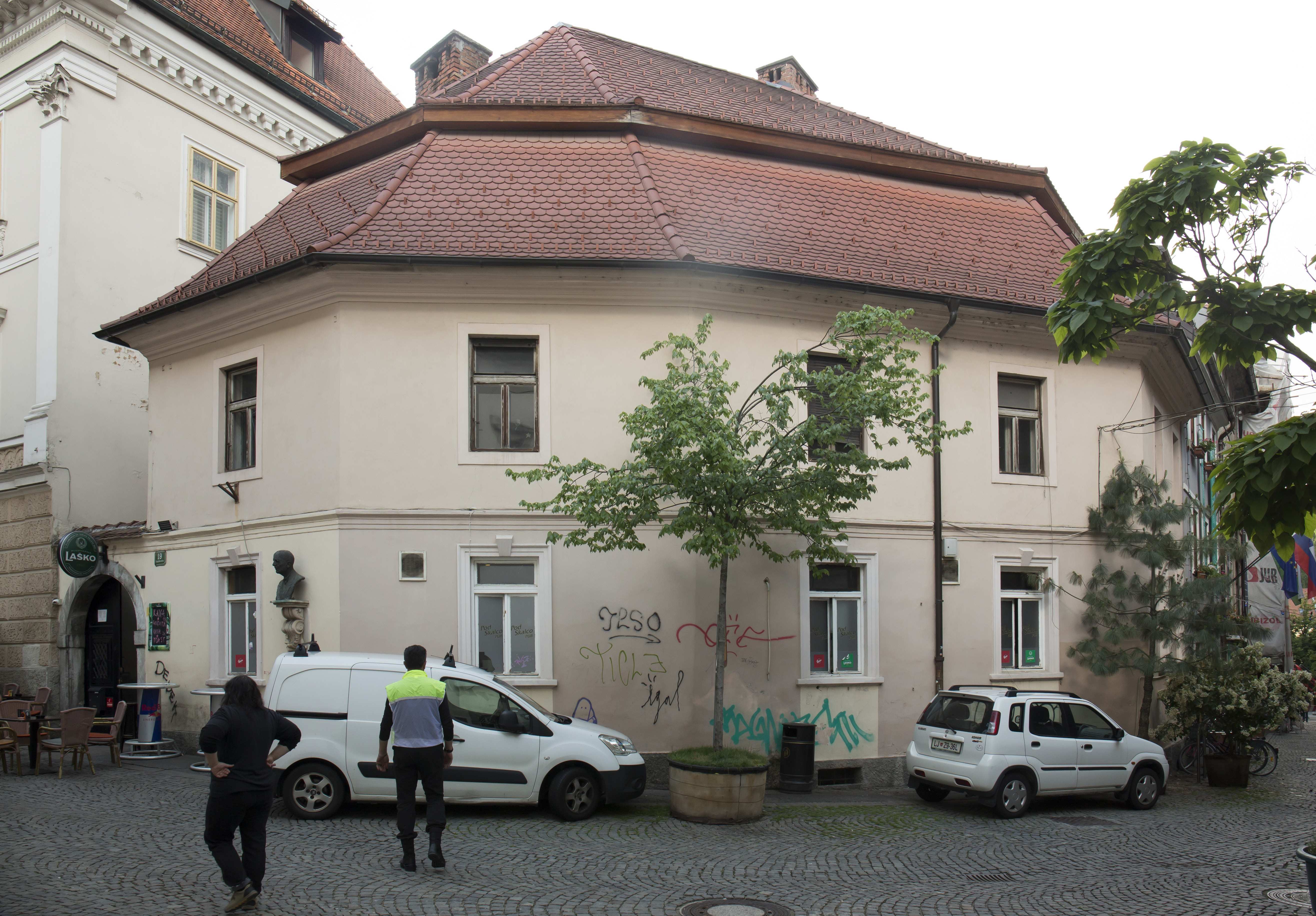 Birth house of the Nobel prize winner Fritz Pregl at Gosposka st., Ljubljana (19 Gosposka ulica). The scientist's bust is mounted at the front.